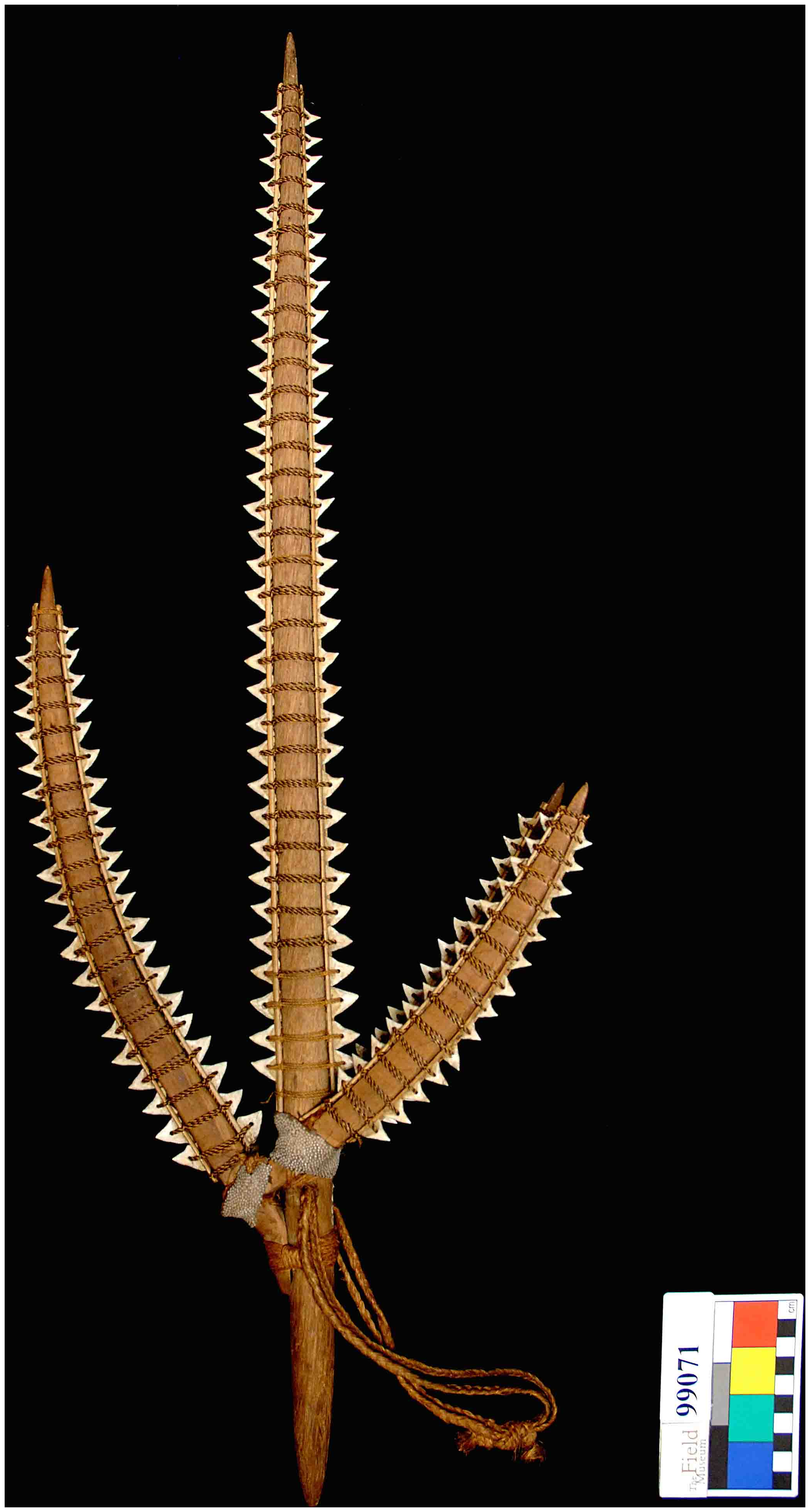 A Gilbertese (Gilbert Islands) shark tooth weapon (FMNH 99071) from the 19th Century Located at the Field Museum of Natural History (